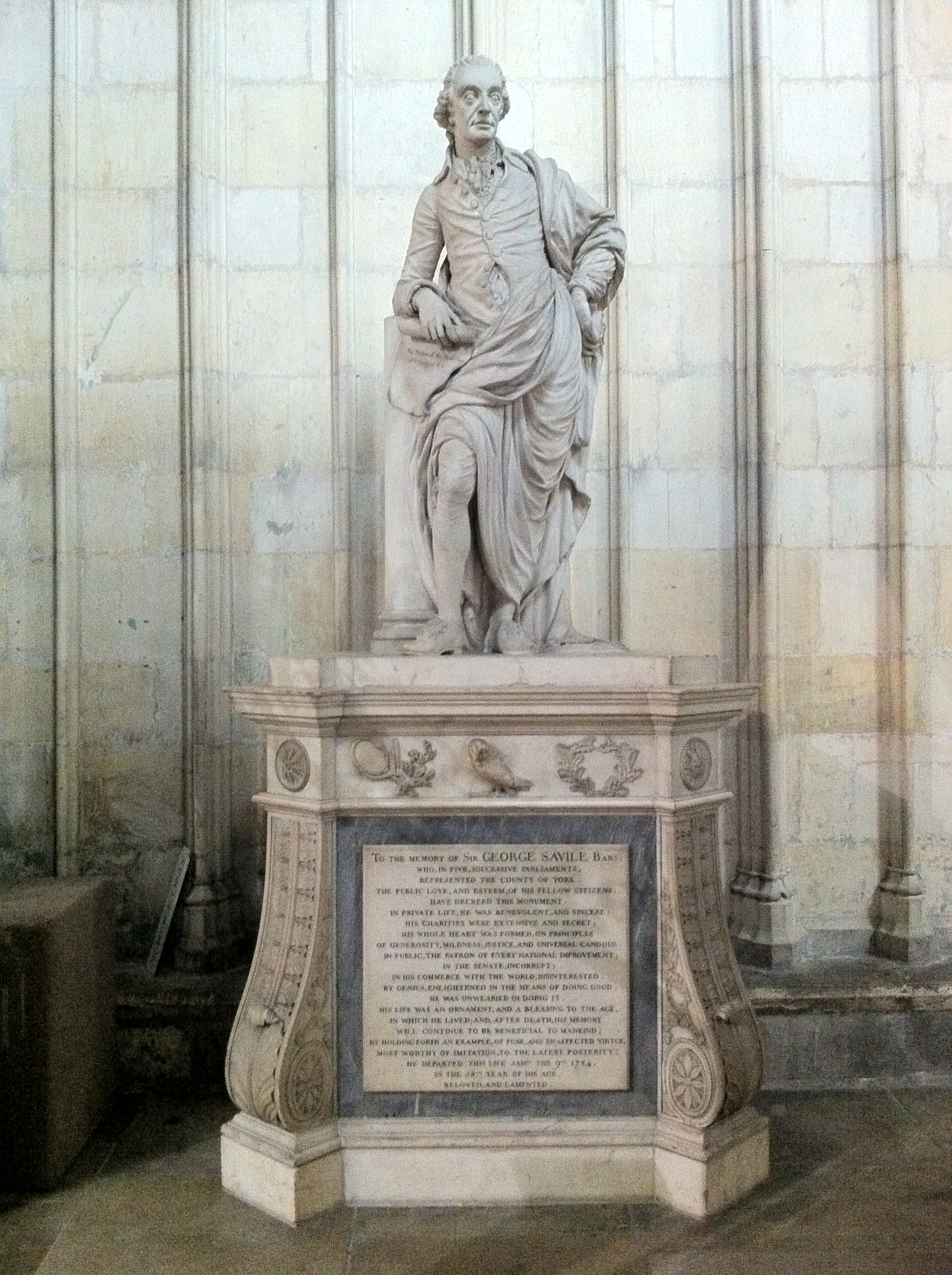 d. 9 Jan 1784. Memorial is in the north choir aisle